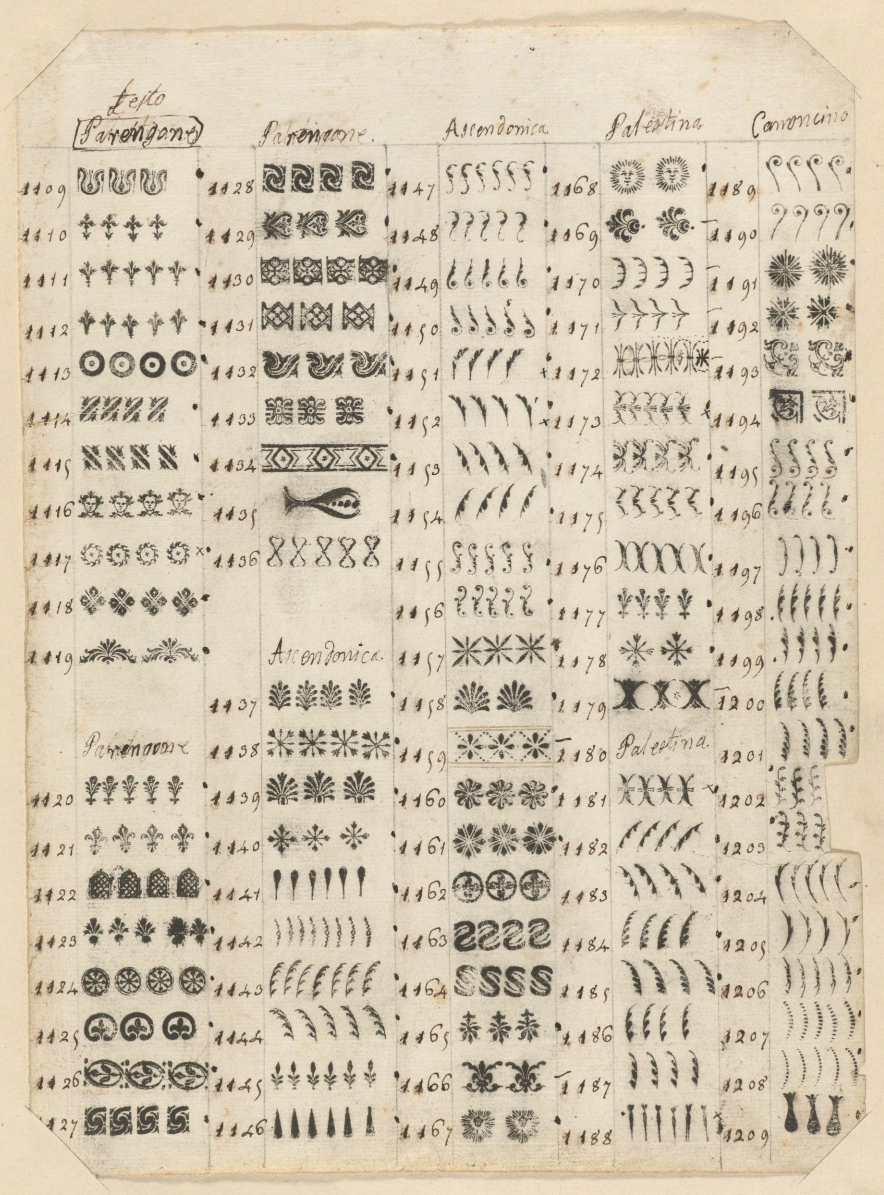 Decoration proofs from Bodoni printing house, ca. 1800. [ TypTS 825.18.225